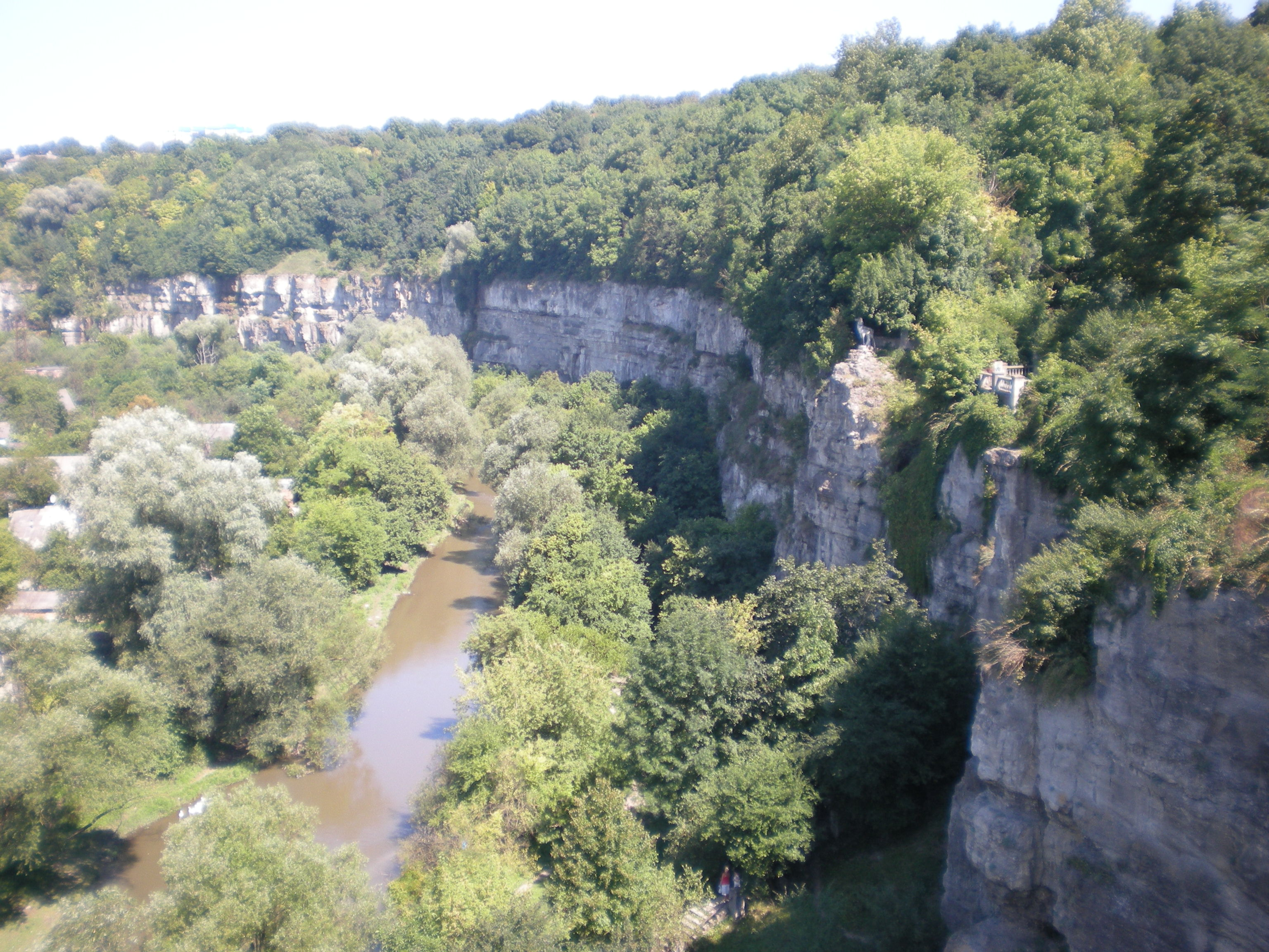 looking north over Smotritsky Canyon from a bridge, which surrounds the old town (to the west) of Kamianets-Podilskyi and separates it from the new town to the east of this point